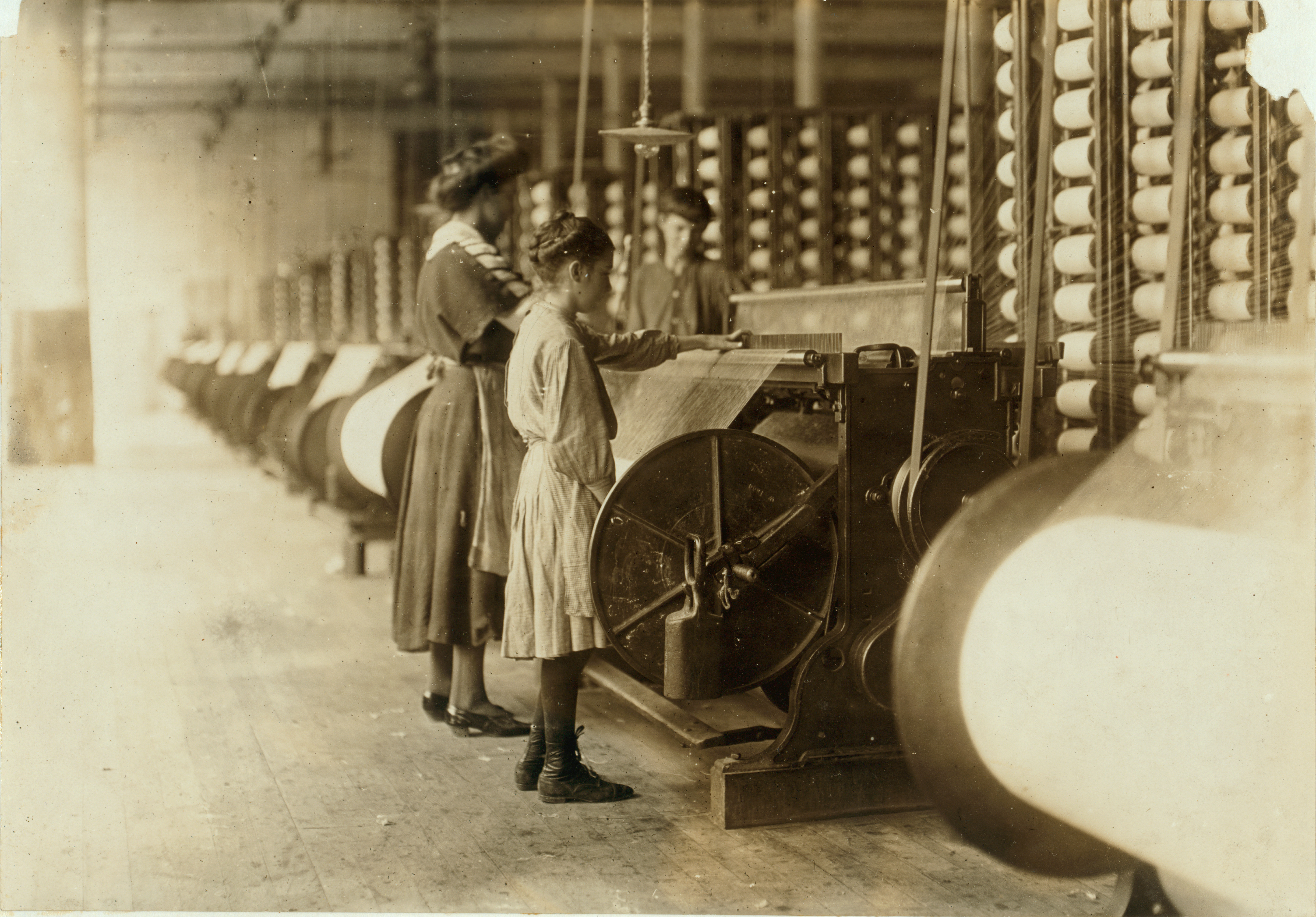 Two young girls working at the Loray Mill in Gastonia, NC.